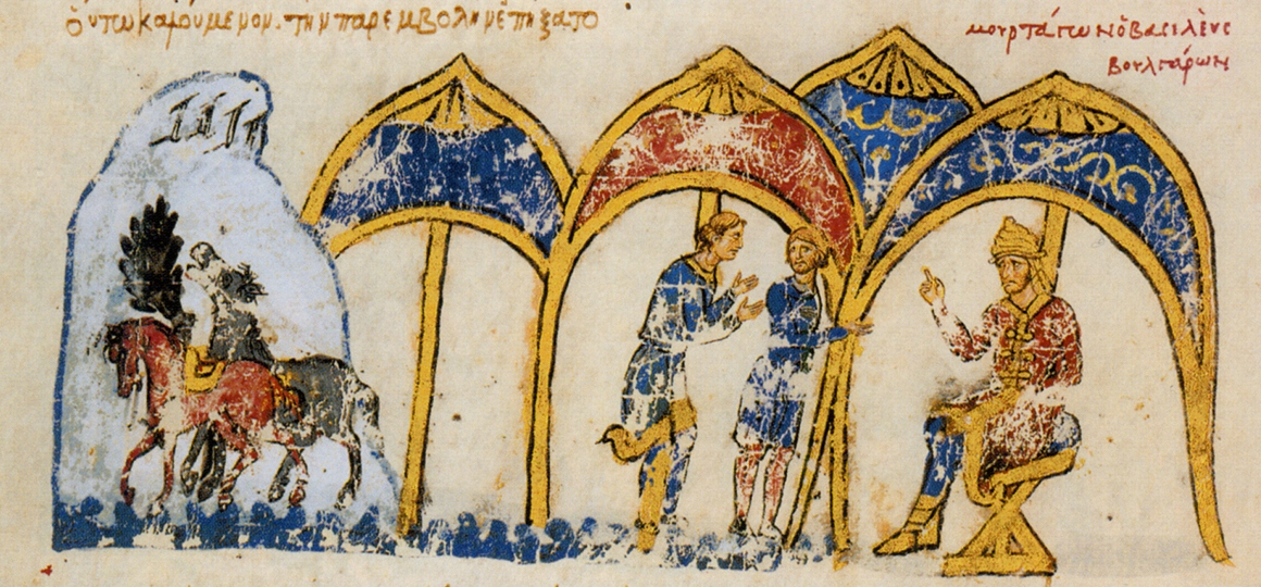 Skyllitzes Matritensis, fol. 35r, detail. Miniature: The Bulgarian ruler Mortagon (Omurtag) receives envoys from the Byzantine Emperor Michael II (s. Tsamakda) or sends envoys to Michael II (s. Божилов). Text from the Chronicle of John Skylitzes: "... Meanwhile, the word having gone out through the whole world that the Roman emperor lay besieged and confined within his own walls, Mortagon, king of the Bulgars, sent him a secret message announcing that he would send help of his own free will and conclude a treaty with him. Either because he really did have pity on his fellow country men or because he resented the expense (he was the most parsimonious emperor there ever was), Michael thanked the Bulgar for his intentions but refused the proferred aid. ..." (Translated by John Wortley, in: John Skylitzes: A Synopsis of Byzantine History, 811-1057: Translation and Notes, p. 40) References: Ioannis Scylitzae Synopsis Historiarum. Editio Princeps. Rec. Ioannes Thurn, p. 37, in: Corpus Fontium Historiae Byzantinae 5 Series Berolinensis, 1973 Tsamakda V.: The illustrated chronicle of Ioannes Skylitzes in Madrid, p. 75-76 Божилов Ив.: Българите във Византийската империя, p. 169 Grabar A., Manoussacas M.: L'illustration du manuscript de Skylitzes de Madrid, p. 36 Божков А.: Миниатюри от Мадридския ръкопис на Йоан Скилица, p. 195-196